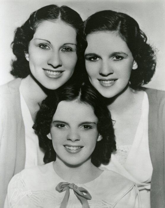 The Gumm Sisters, AKA The Garland Sisters, ca. 1935, from left to right: Mary Jane, Frances Ethel (Judy Garland) and Dorothy Virginia Gumm.